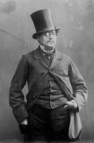 Photograph of Henry Leigh Murray (1820–1870), English actor. (Probable identification.)